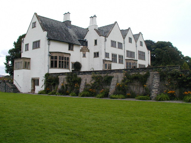 Blackwell - The Arts and Crafts House. Picture taken during a visit to the Anderson Art Nouveau exhibition in August 2004